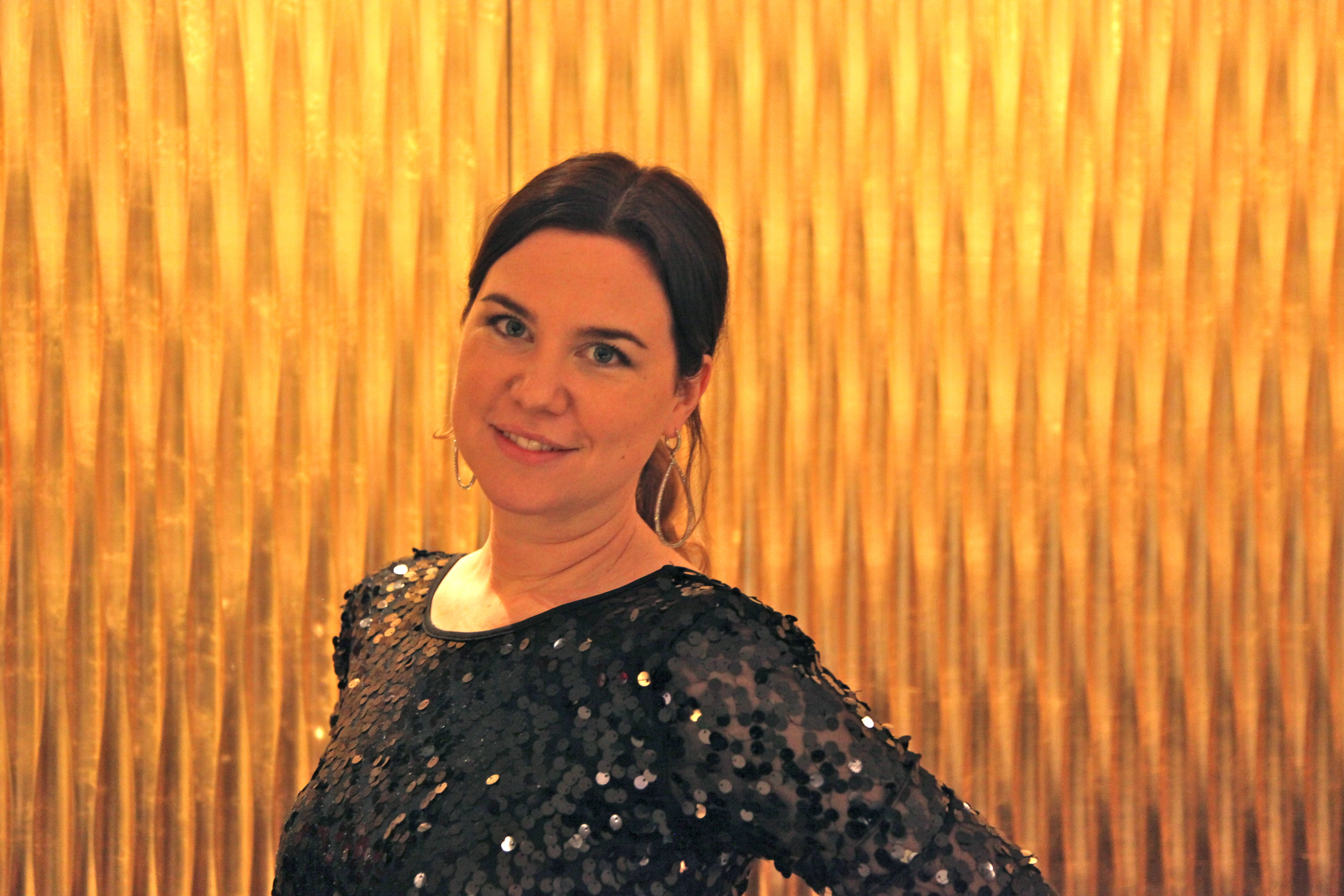 Director Lisa James Larsson 2013